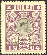 1904 Denmark #1 Christmas Seal, World's first Christmas Seal